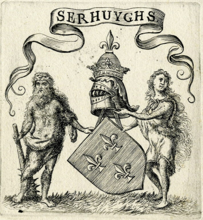 Engraving of the coat of arms of the House of Serhuyghs, one of the Seven Noble Houses of Brussels, from 1663 found in (J.-B. Christyn) - Iurisprudentia heroica sive de iure Belgarum [...] - Bruxellis, Balthasar Vivien, 1663.